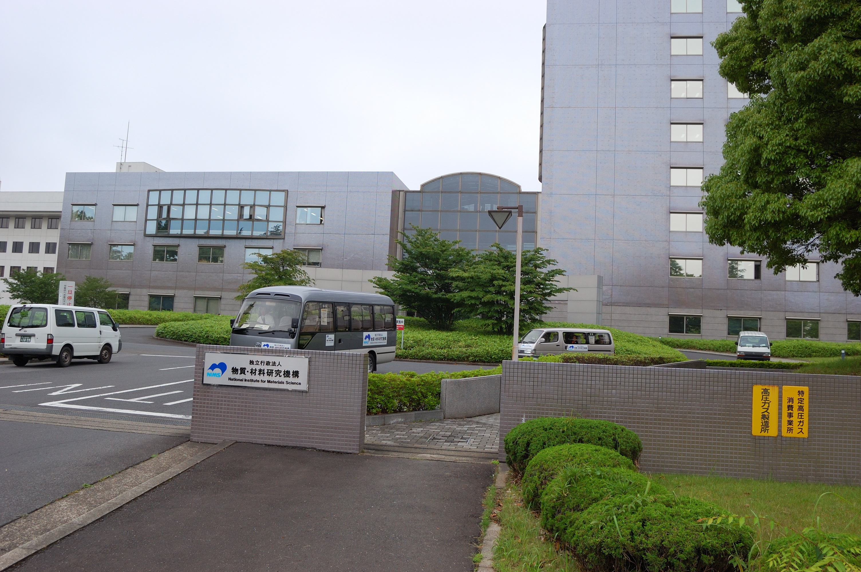 Photograph of exterior of National Institute for Materials Science, Tsukuba, Japan